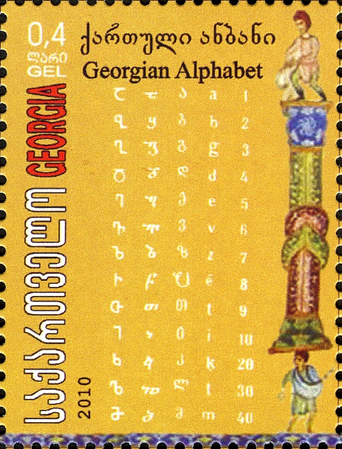 Stamps of Georgia, 2010